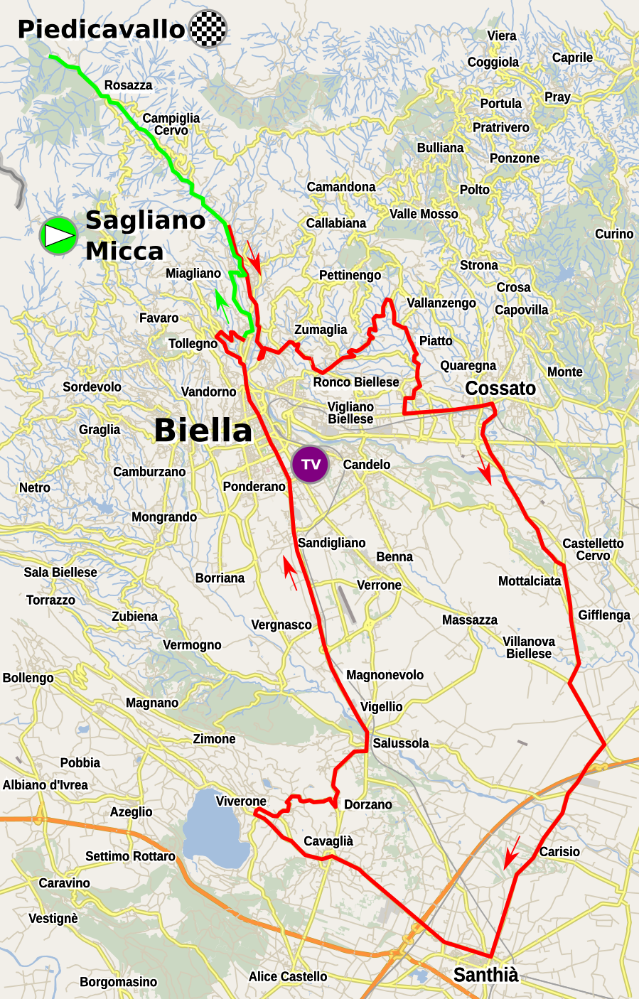 Map of stage 3 from Giro donne 2019